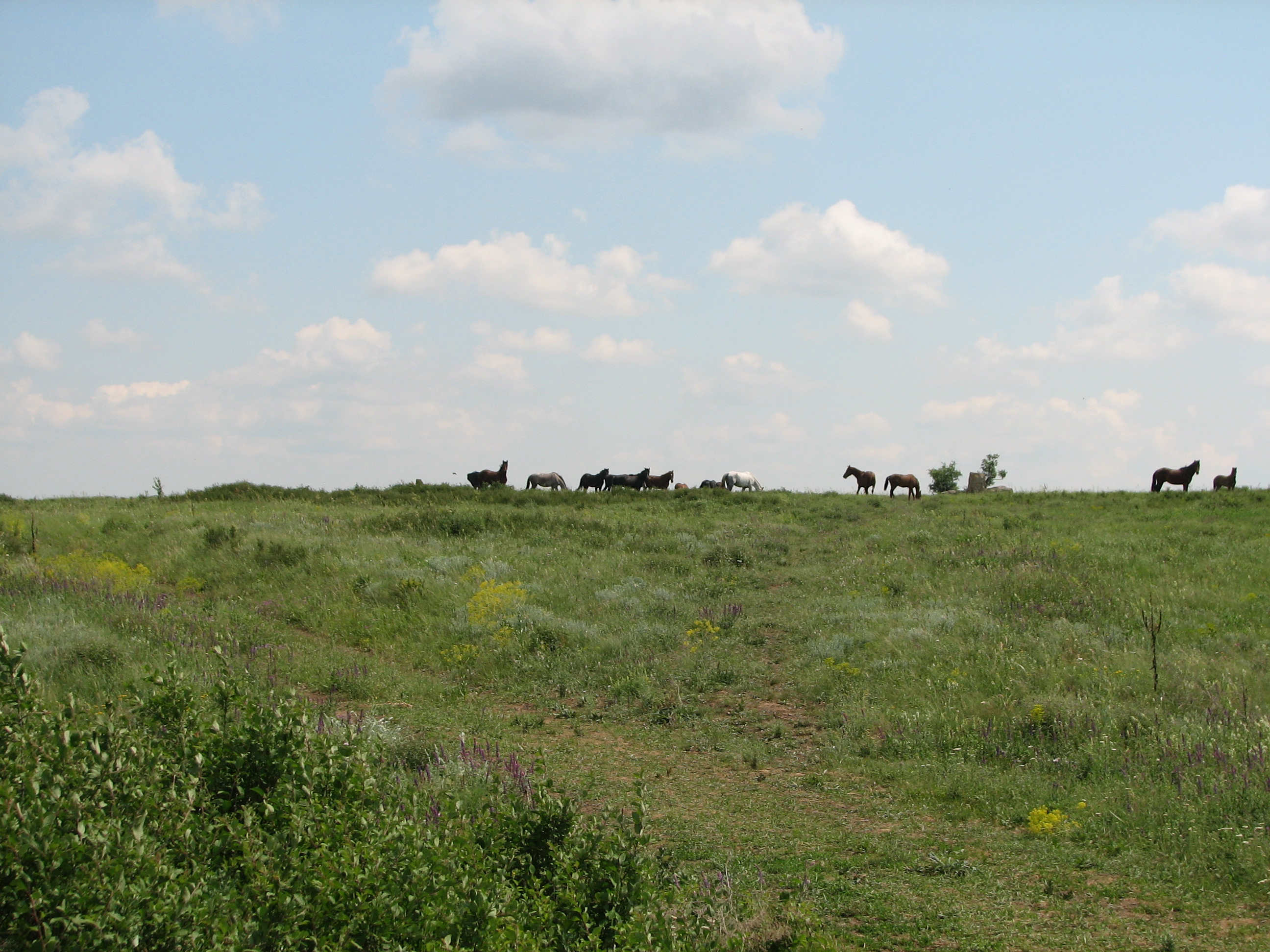 The Nature Reserve: Khomutovskaya Steppe